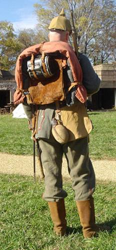 A Landser (randoseru in Japanese pronunciation) torniquet was just the center piece of a German infantry backpack. A blanket would be wrapped around it, and additional equipment hung off of it, explaining the hard shell.